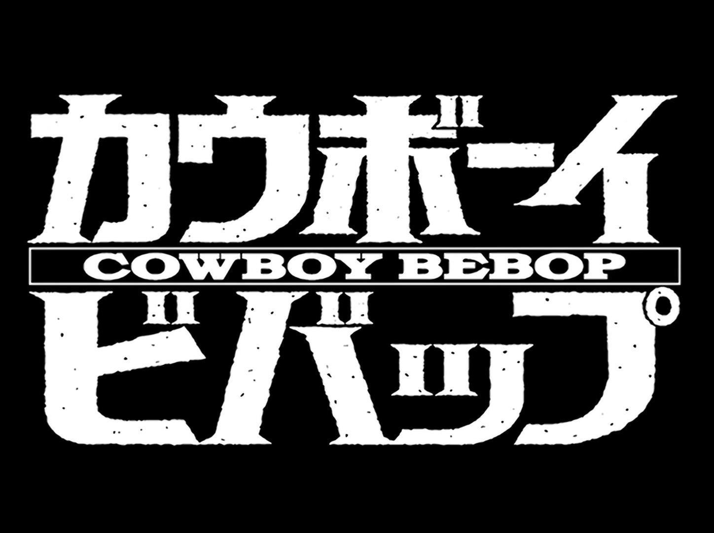 Logo of Cowboy Bebop anime